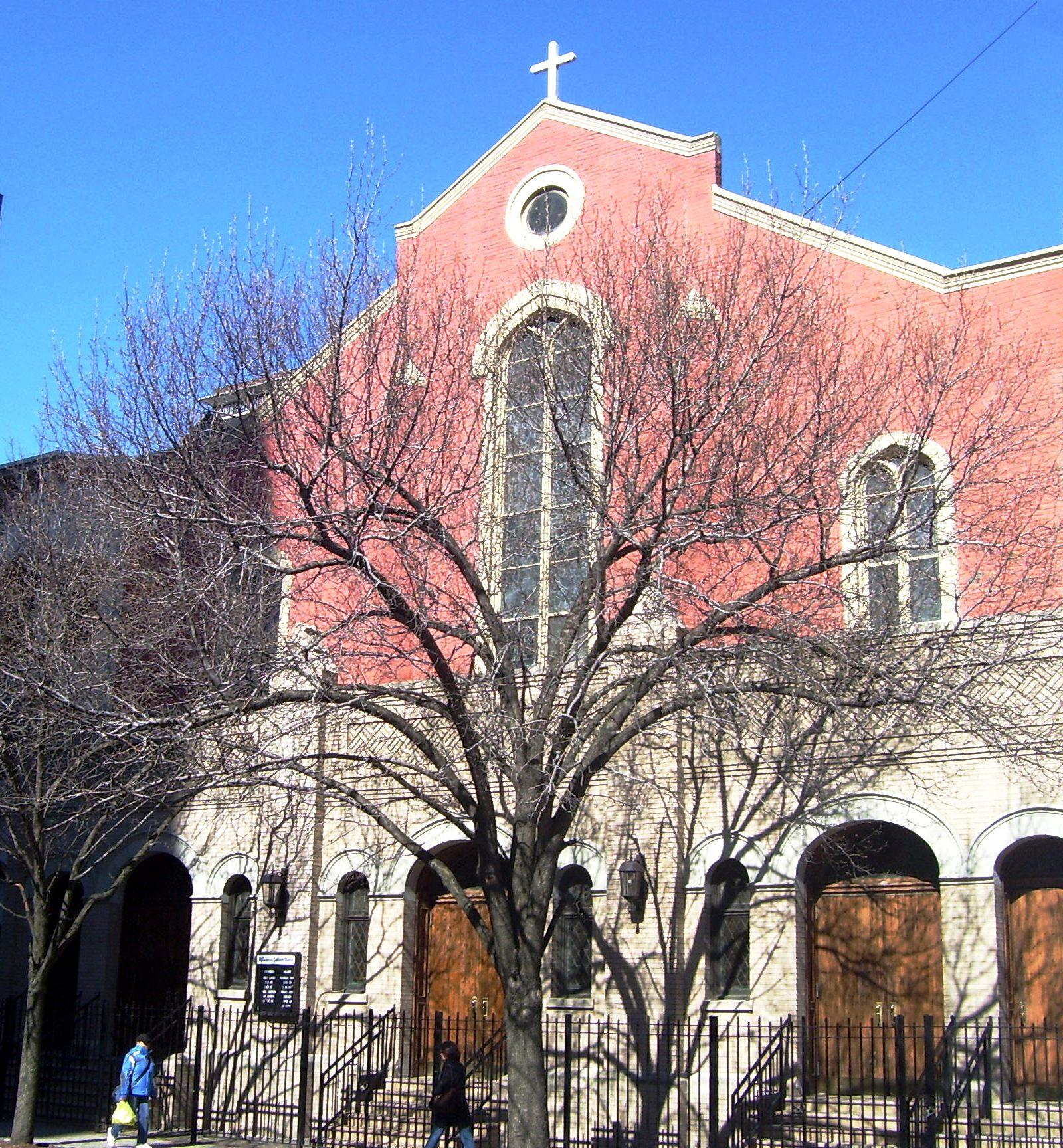 St. Columba Church, at 343 West 25th Street between Eighth and Ninth Avenues in the Chelsea neighborhood of Manhattan, New York City, was built in 1845 and is one of the oldest existing Roman Catholic churches in New York City. (Source: From Abyssinian to Zion (4th ed.))